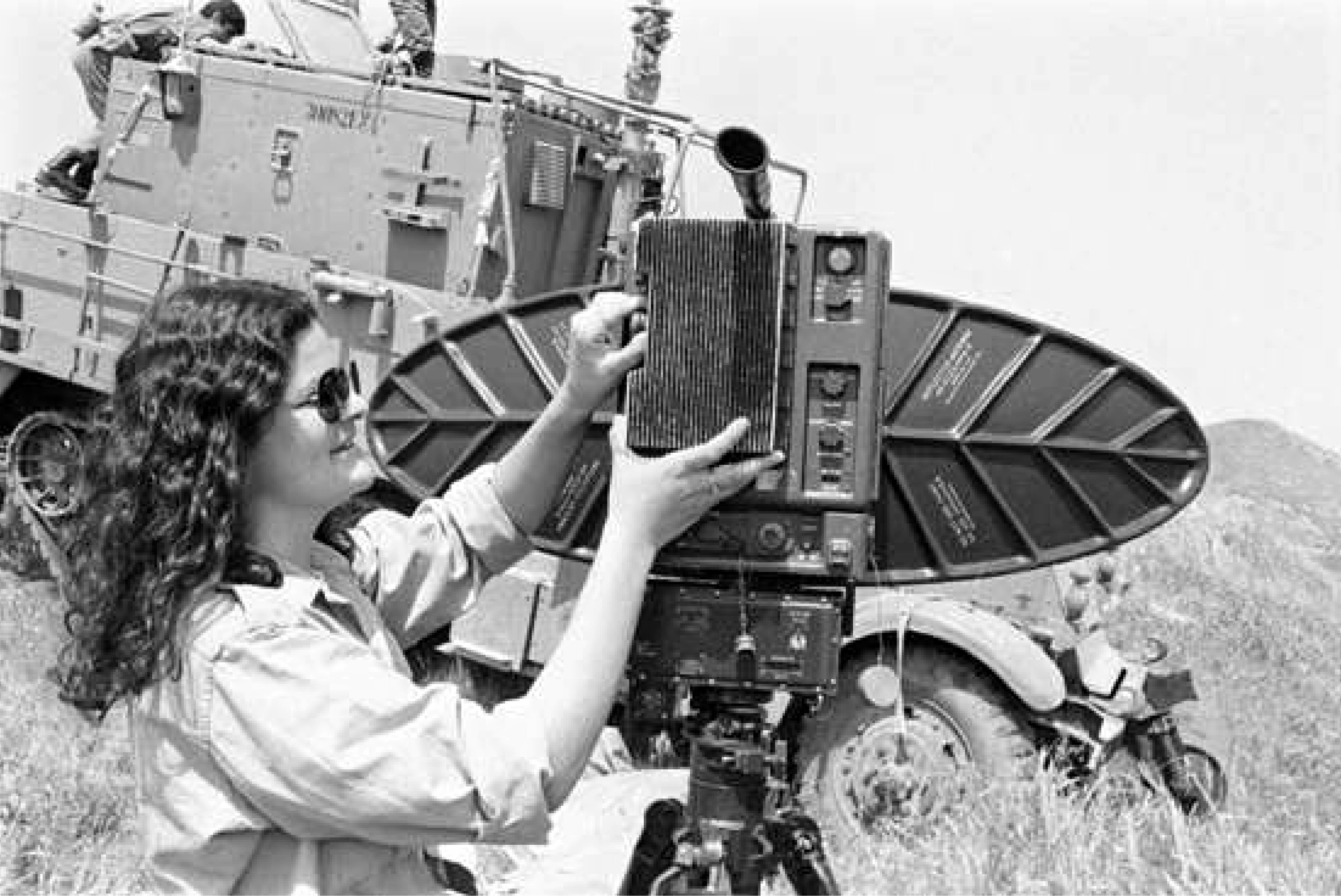 IDF Signal corps women installing AN/PPS-5 Ground Radar Set, known as the Keshet Rader in the IDF